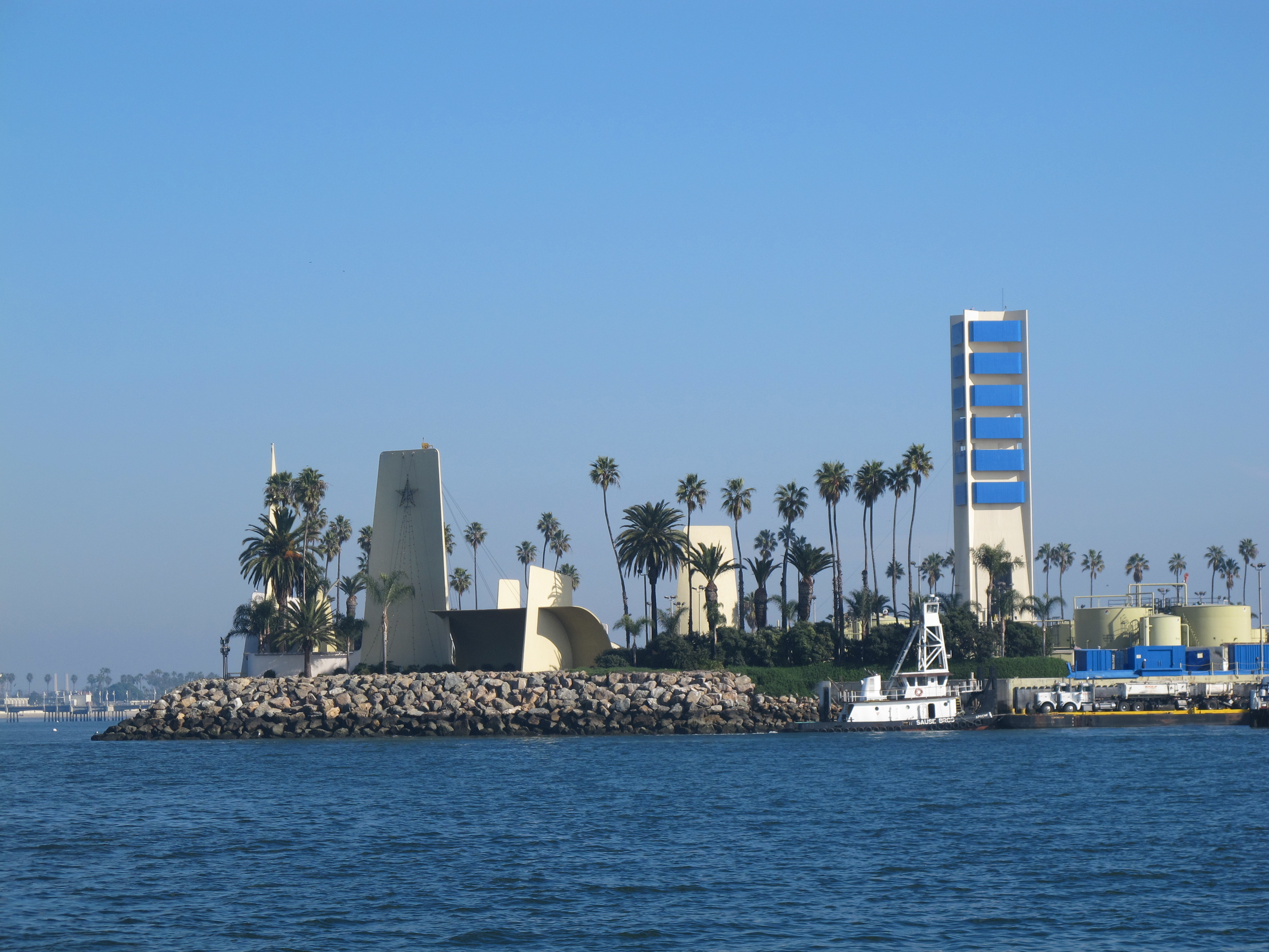 Oxy THUMS comprises four man-made islands in Long Beach Harbor, California. THUMS encompasses a portion of the giant Wilmington field, which was discovered in 1932. When Oxy acquired THUMS in 2000, it retained the name derived from the original consortium of operators: Texaco, Humble, Unocal, Mobil and Shell. Under the terms of a partnership agreement between THUMS Long Beach, the city of Long Beach and the state of California, THUMS was designed to blend in with the surrounding coastal environment. Drilling rigs and other above-ground equipment are camouflaged and sound-proofed, and wellheads and pipelines are located below ground to ensure that the islands enhance the appearance of both harbor and skyline. The THUMS islands were named after the first four astronauts who died in the line of duty in the early years of the U.S. space program. Freeman encompasses about 12 acres, while Grissom, White and Chaffee cover approximately 10 acres each.The islands were constructed using 640,000 tons of boulders and 3.2 million cubic yards of sand. Weighing up to five tons each, the boulders rest on the shallow harbor bottom and form a perimeter for each island. An elaborate irrigation system keeps more than 700 palm trees alive in the unusual island soil. Abstract sculptures and waterfalls, some as high as 45 feet, are offset by attractive landscaping and colorful night lighting. THUMS' unique combination of production functionality, visual appeal and environmental safety has garnered the facility dozens of design and engineering awards from local, state and national organizations. The first oil operation to inject reclaimed city water to help maintain reservoir pressure for waterflood recovery, THUMS received an Environmental Award from Hart's Oil and Gas Investor magazine as Best in the Pacific for the use of reclaimed water in its water injection program.